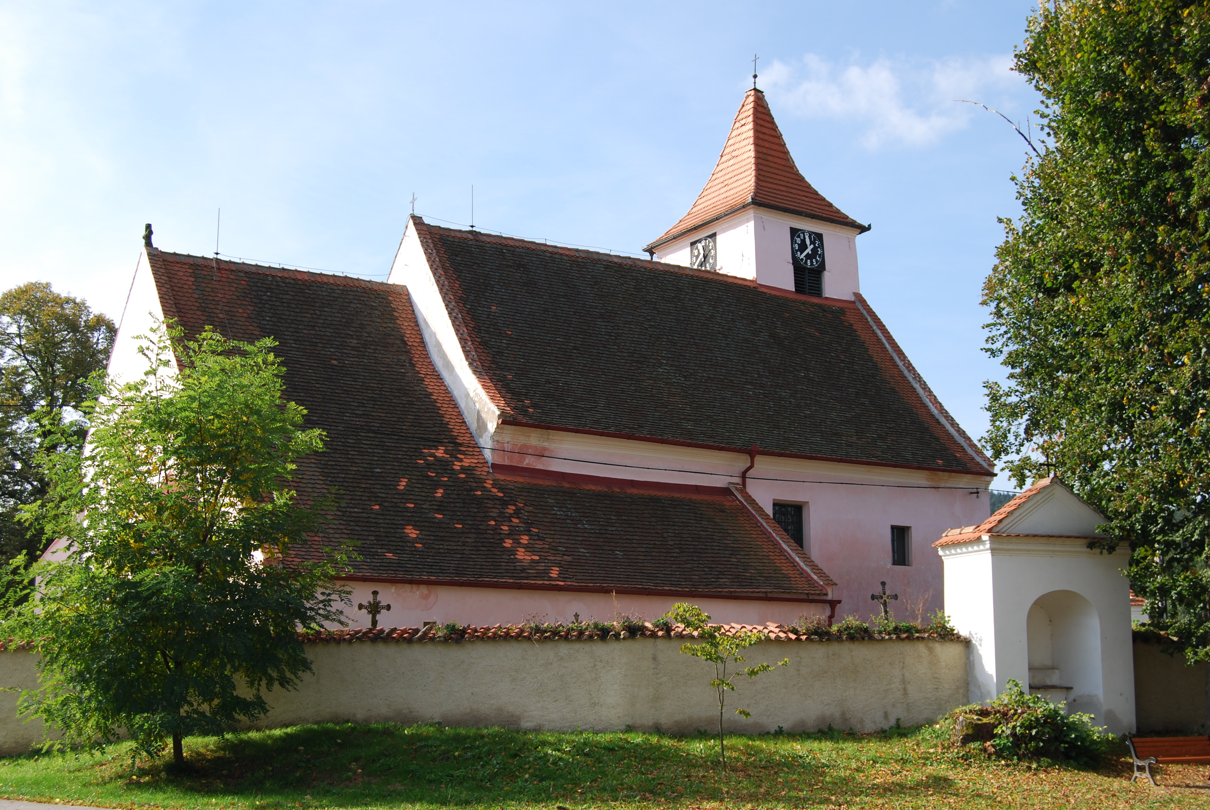 Bílsko village in Strakonice District, Czech Republic. Church of Sant Jacob